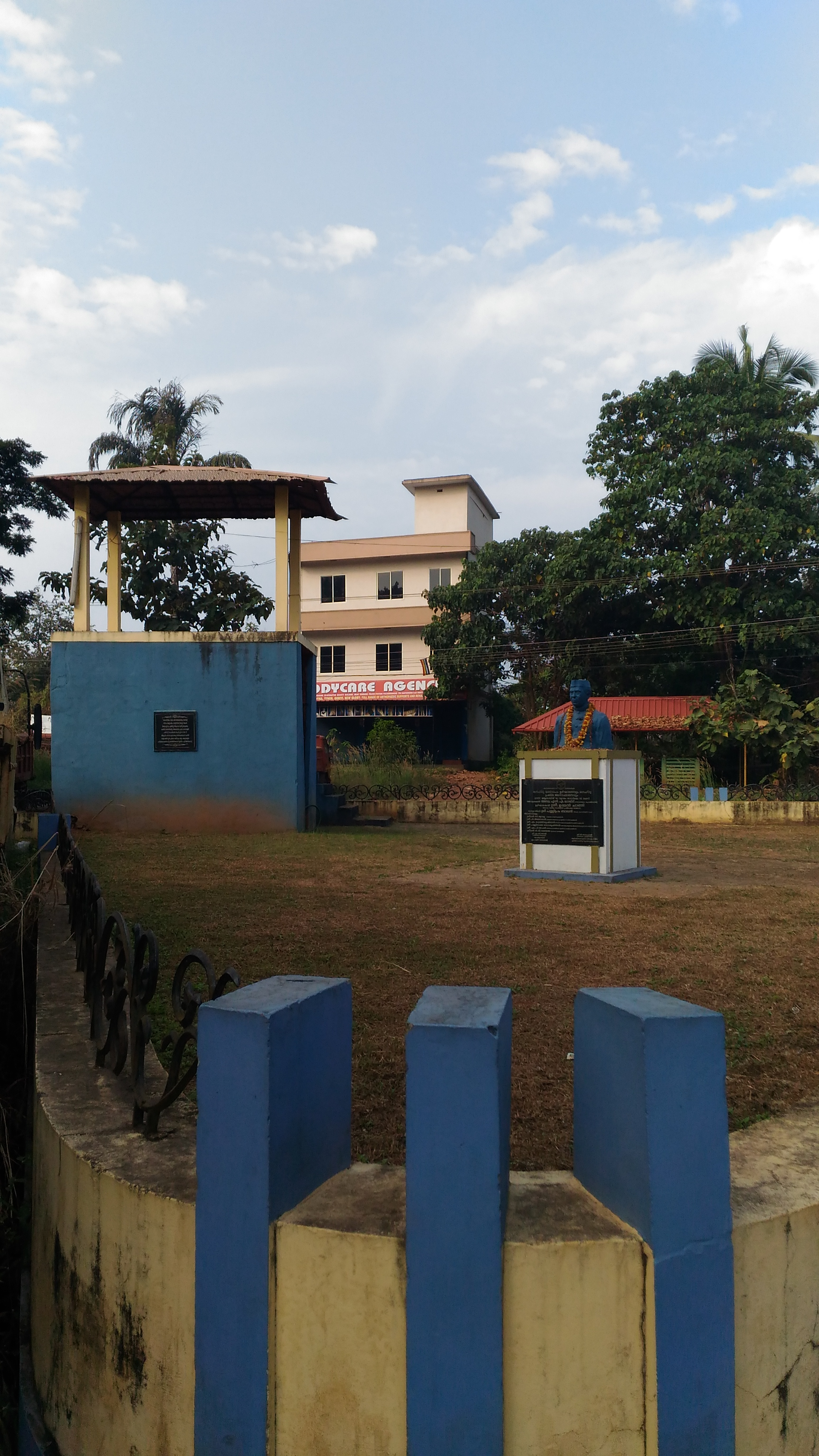 The Mantap where Jawaharlal Nehru spoke to the people on 25.02.1957